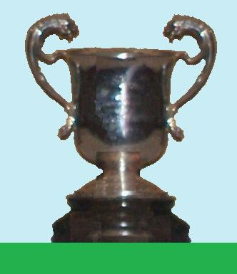 Picture of the McElligott Cup trophy which is competed for by Rugby clubs in County Kerry, Ireland.